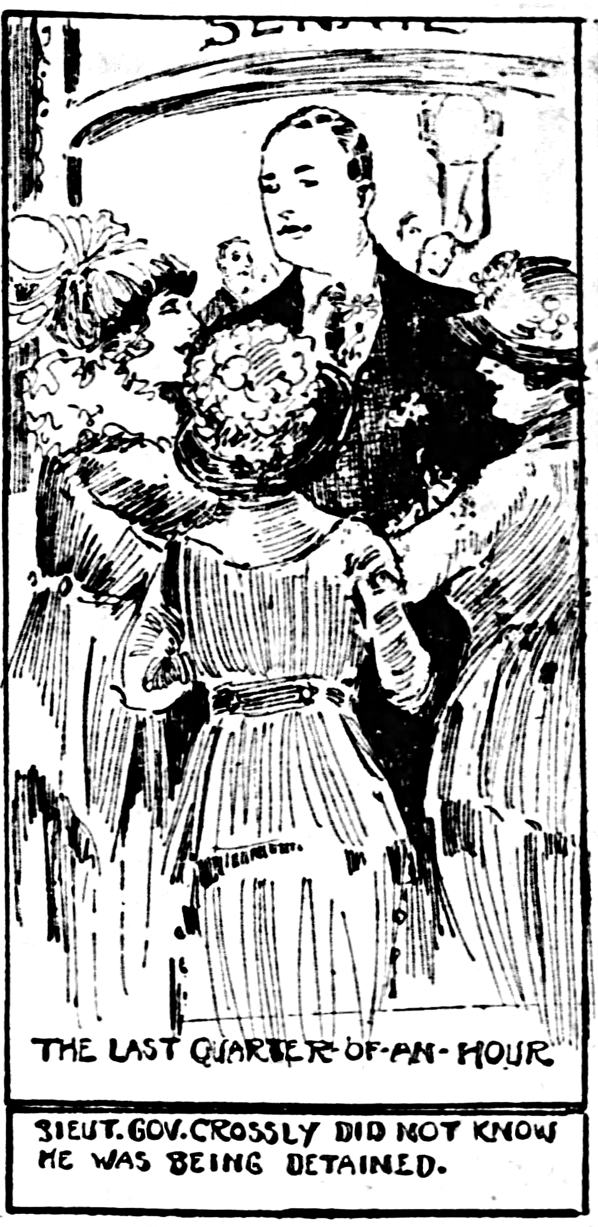 Imaginative sketch of Missouri Lieutenant-Governor Wallace Crossley on the floor of the State Senate, with three women intent on delaying the vote on a women's suffrage measure until more supporting votes can arrive, 1919